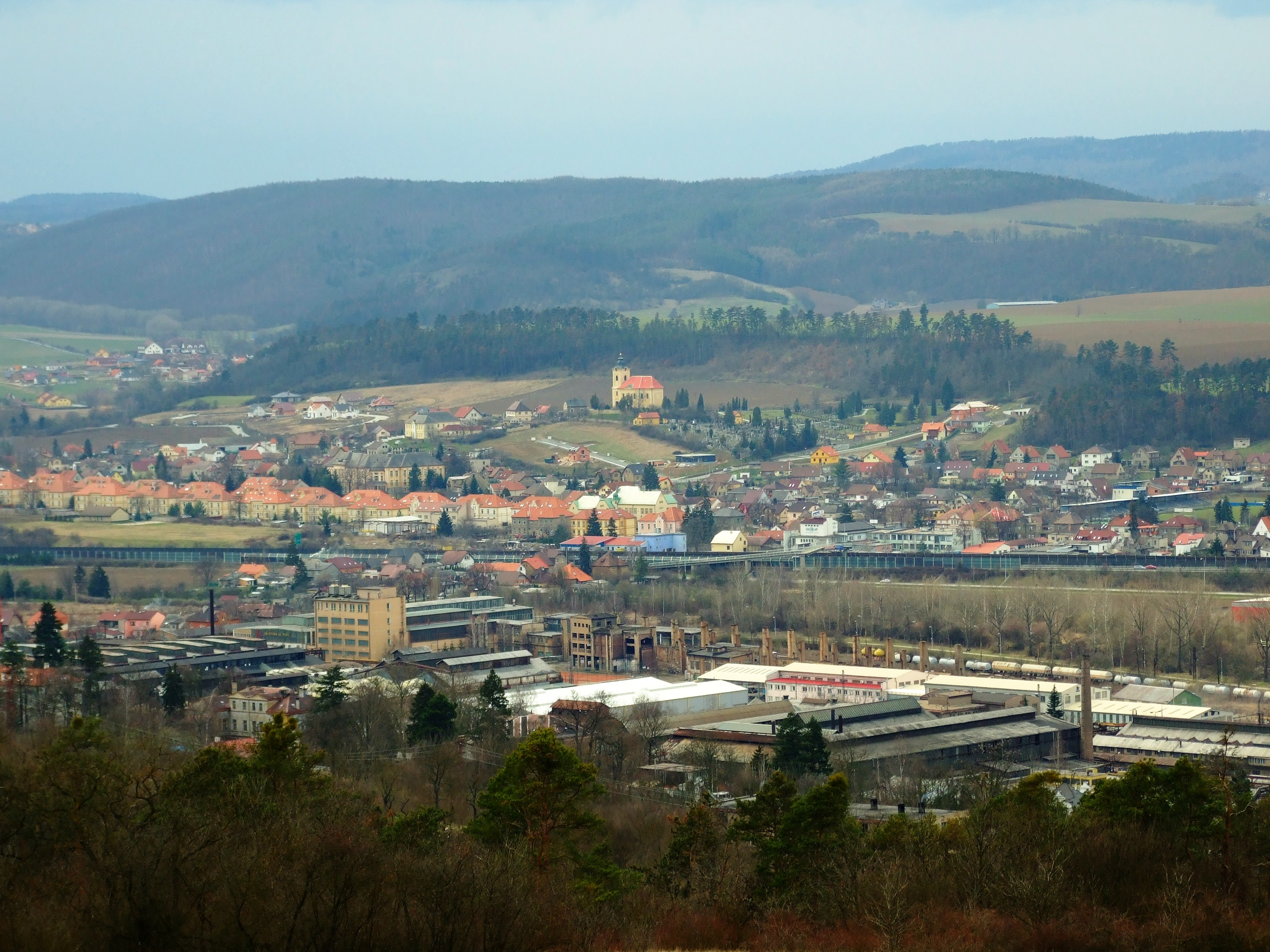 City of Králův Dvůr and surrounding nature in Central Bohemian region, CZhelp